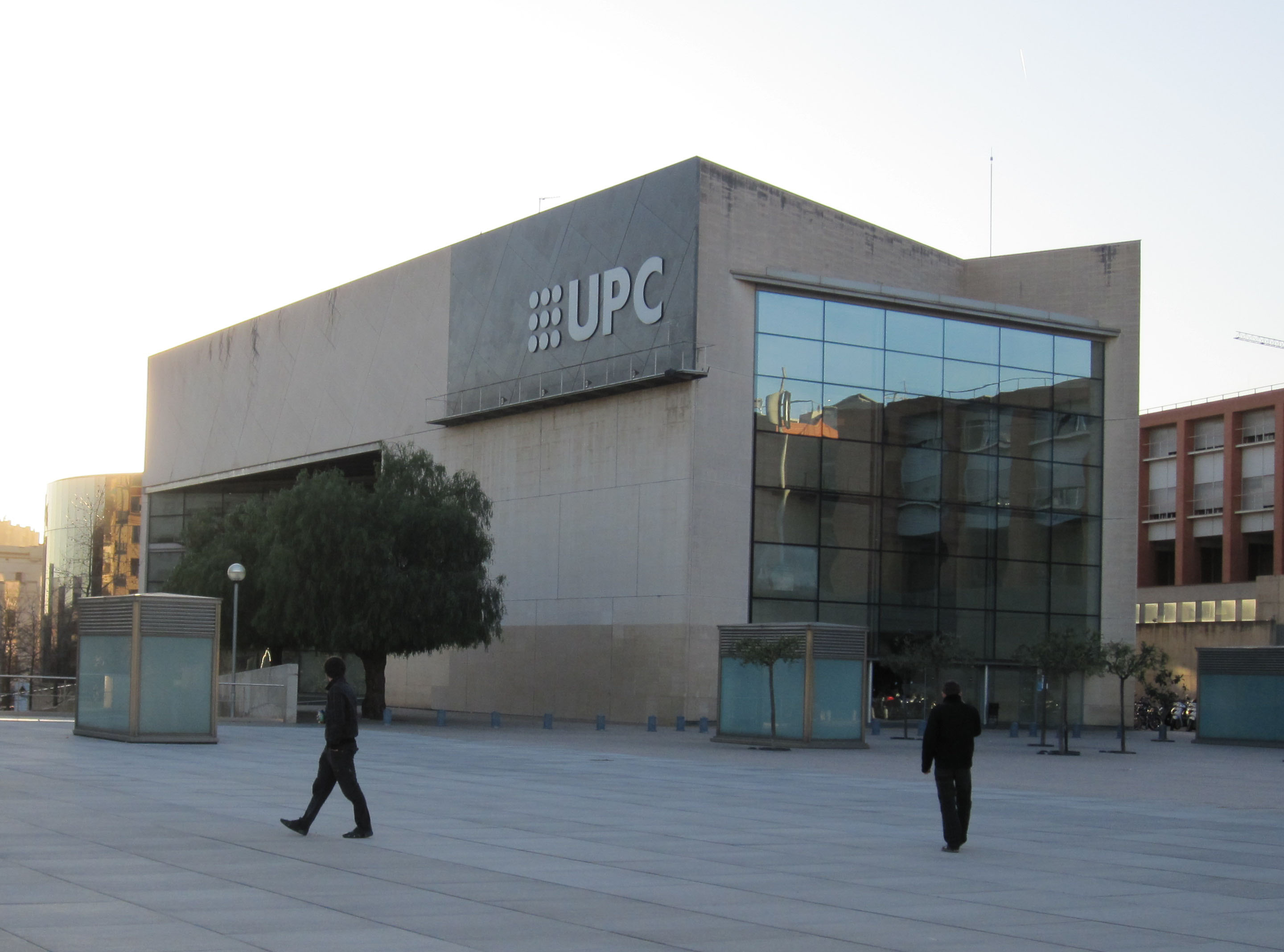 UPC library